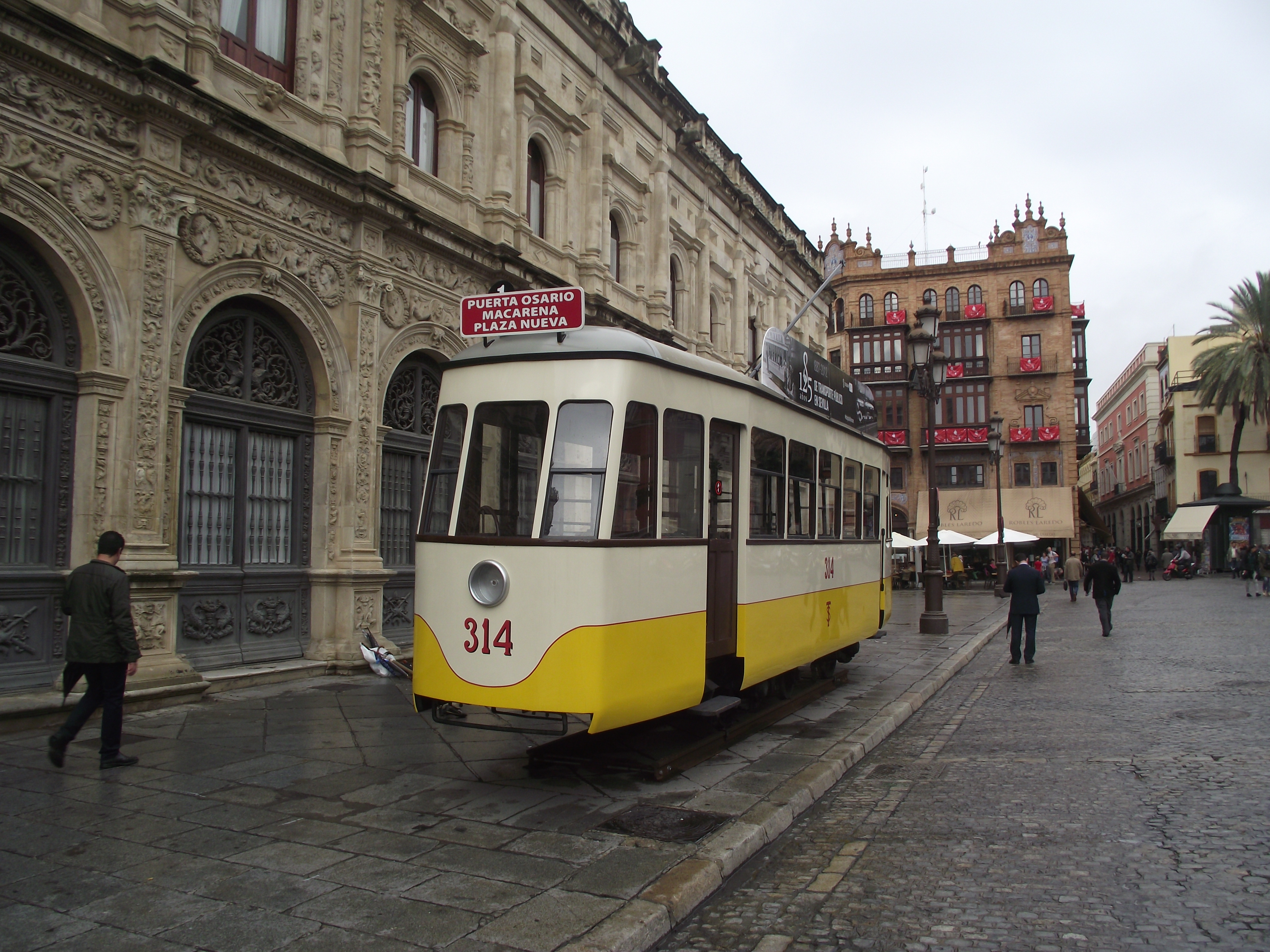 In october 2012 there was an exposition of tram transport in the city. An old tram was shown in the Plaza de San Francisco. The building behind is the Ayuntamiento.